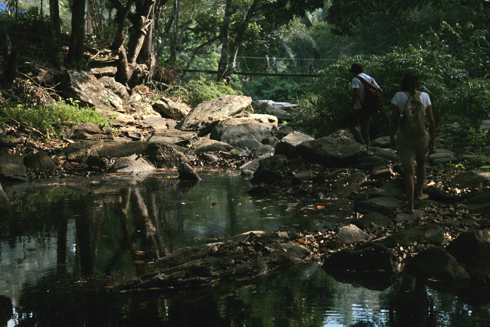 Guaramiranga (10)